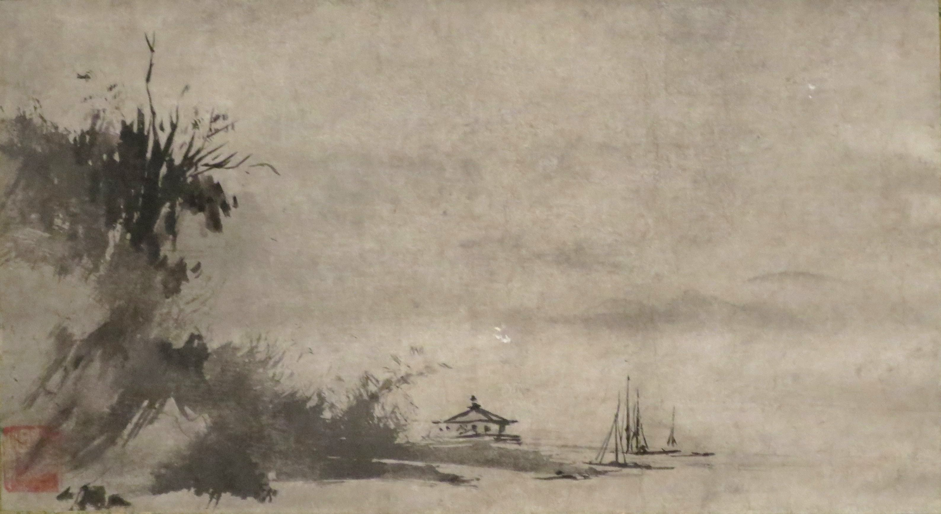 Landscape traditionally attributed to Sesshū Tōyō, Muromachi period, 15th century, ink on paper, Honolulu Museum of Art accession 2846